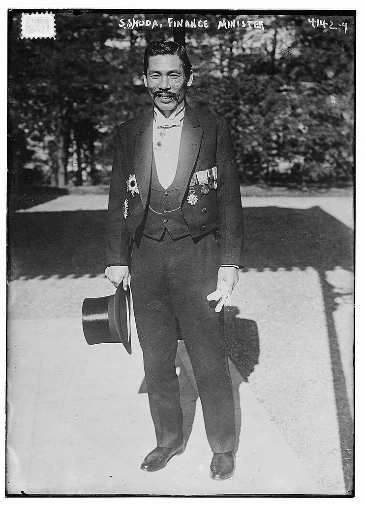 Kazue Shōda in 1917 in New York City negotiating for a loan for Japan